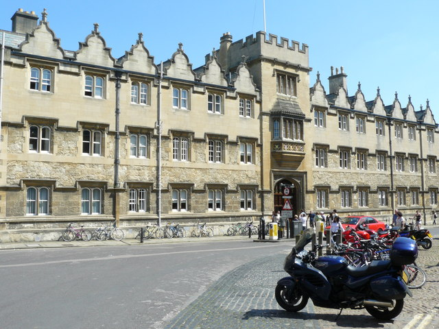 Oriel College, Oxford